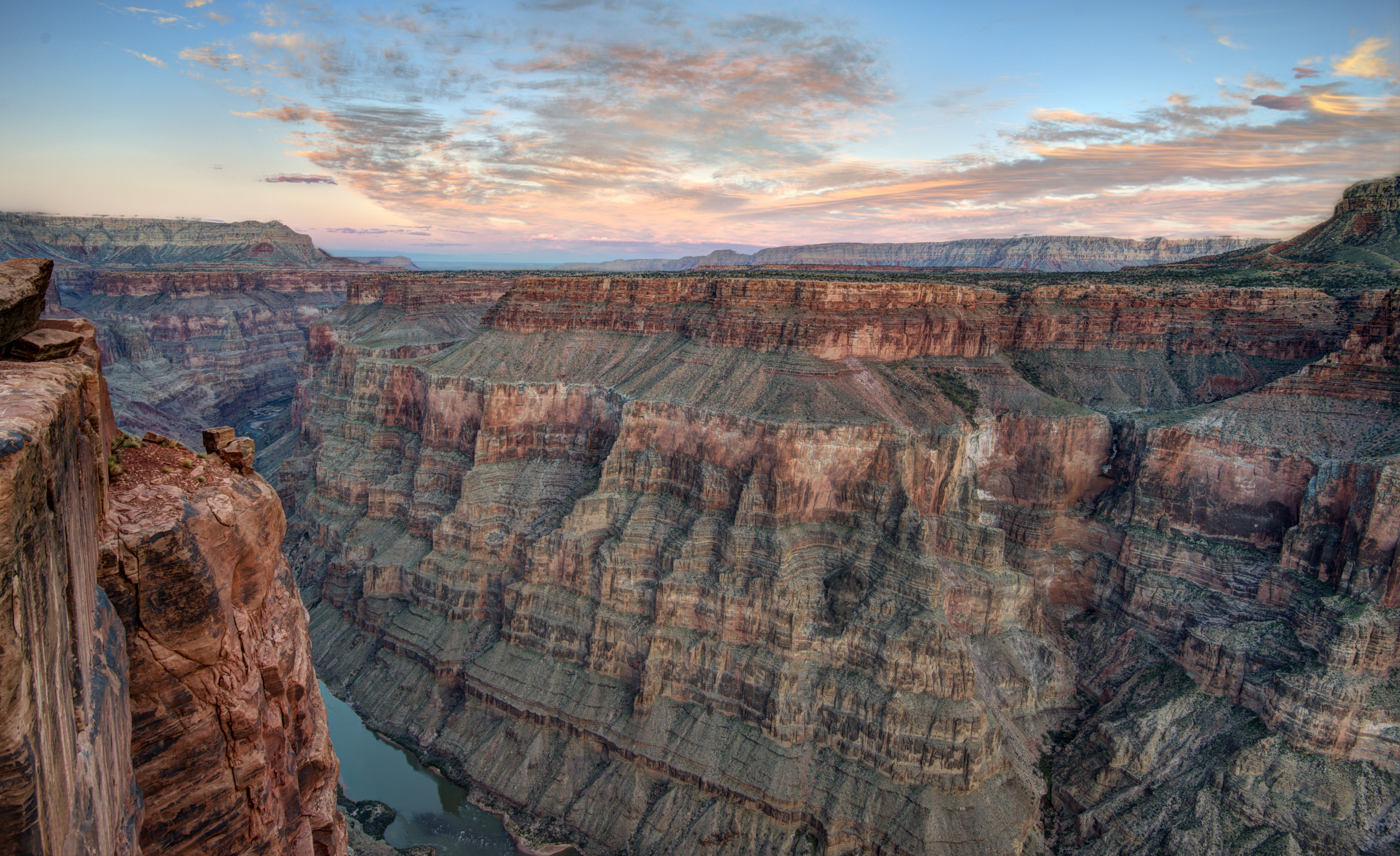 Toroweap (not sunrise), Grand Canyon by John Fowler